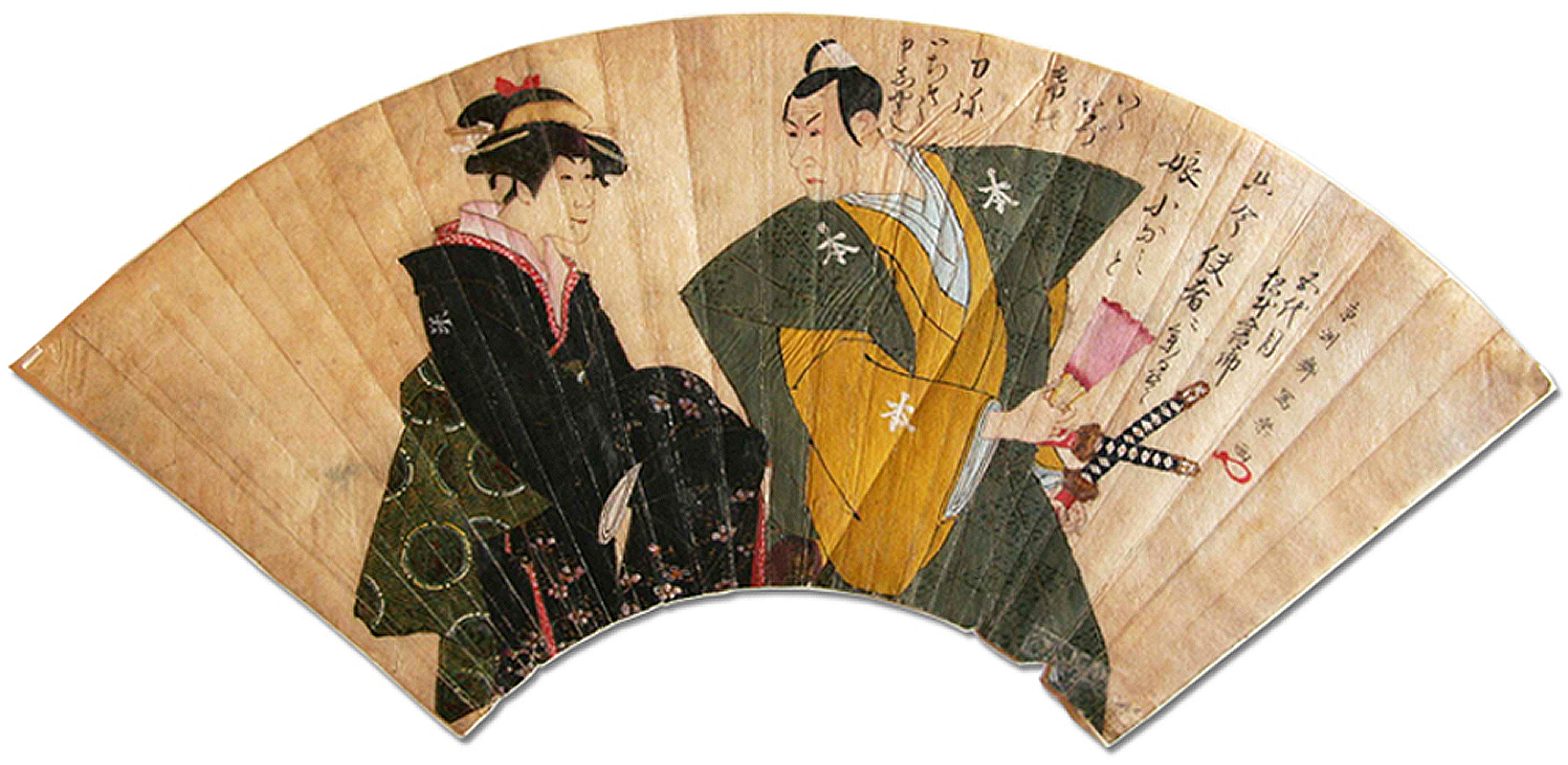 ja: 四代目松本幸四郎の加古川本蔵（右）と松本米三郎の小浪、寛政七年五月江戸河原崎座上演『仮名手本忠臣蔵』より en: Kōshirō Matsumoto IV as Honzō Kakogawa and Yonezaburō Matsumoto as Konami in the June 1795 Edo Kawarazaki-za production of Kanadehon Chushingura